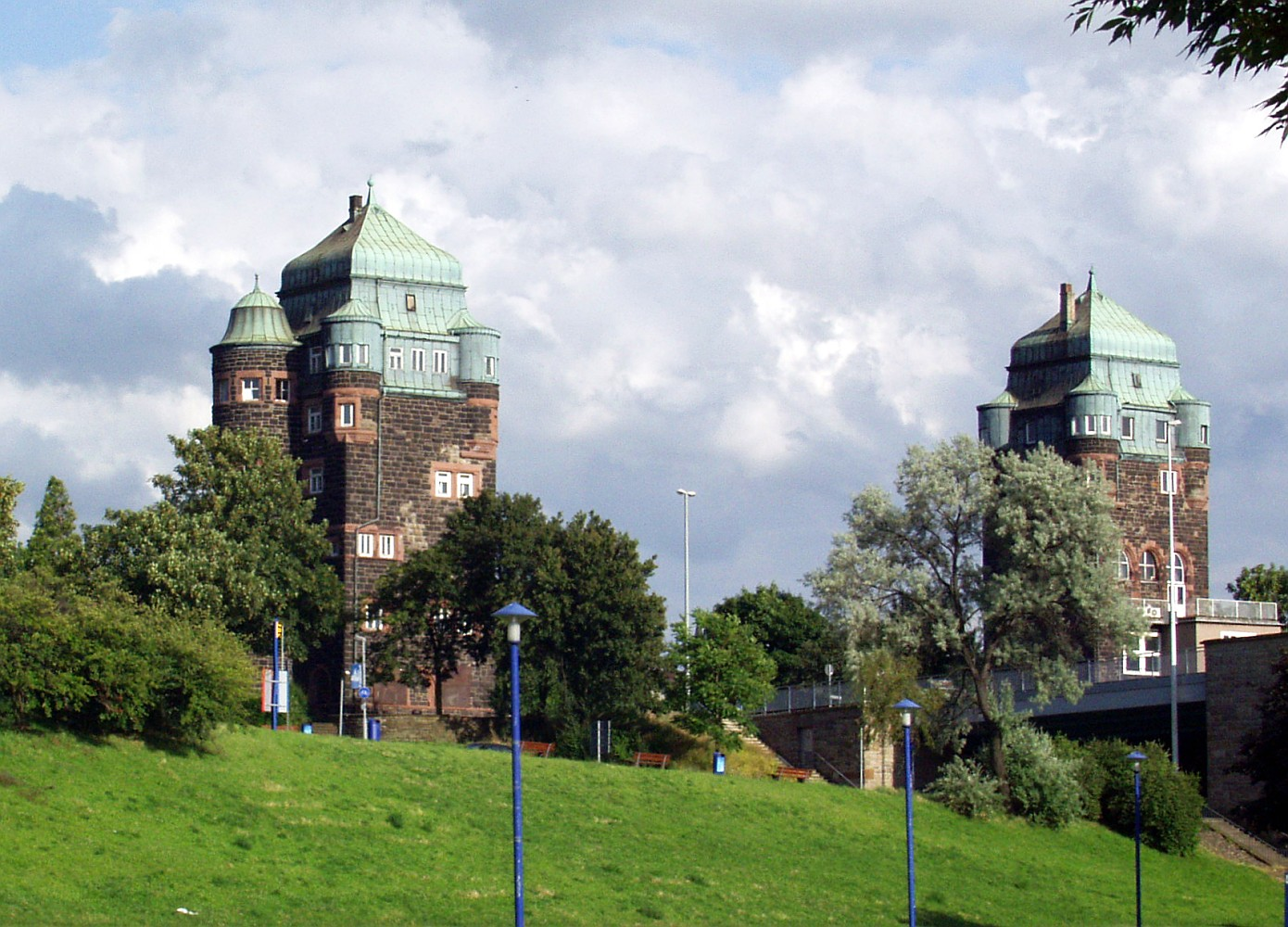 Brigetowers of Friedrich-Ebert-Bridge over the Rhine in Duisburg, Germany